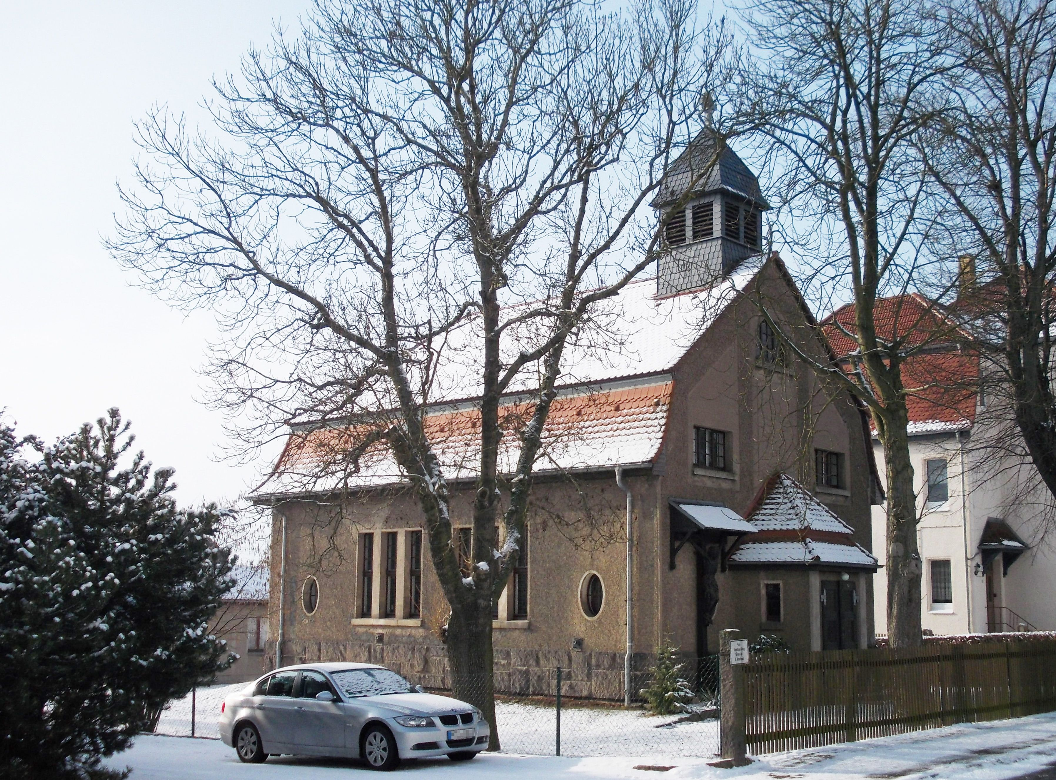 Roman Catholic Saint Louis Church in Beucha (Brandis, Leipzig district, Saxony)